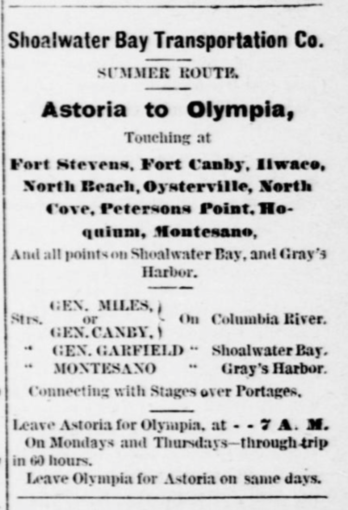 Advertisement for Shoalwater Bay Transportation Company, published in Daily Astorian on August 13, 1882.